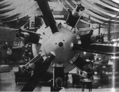 Fuscaldo 90 hp engine